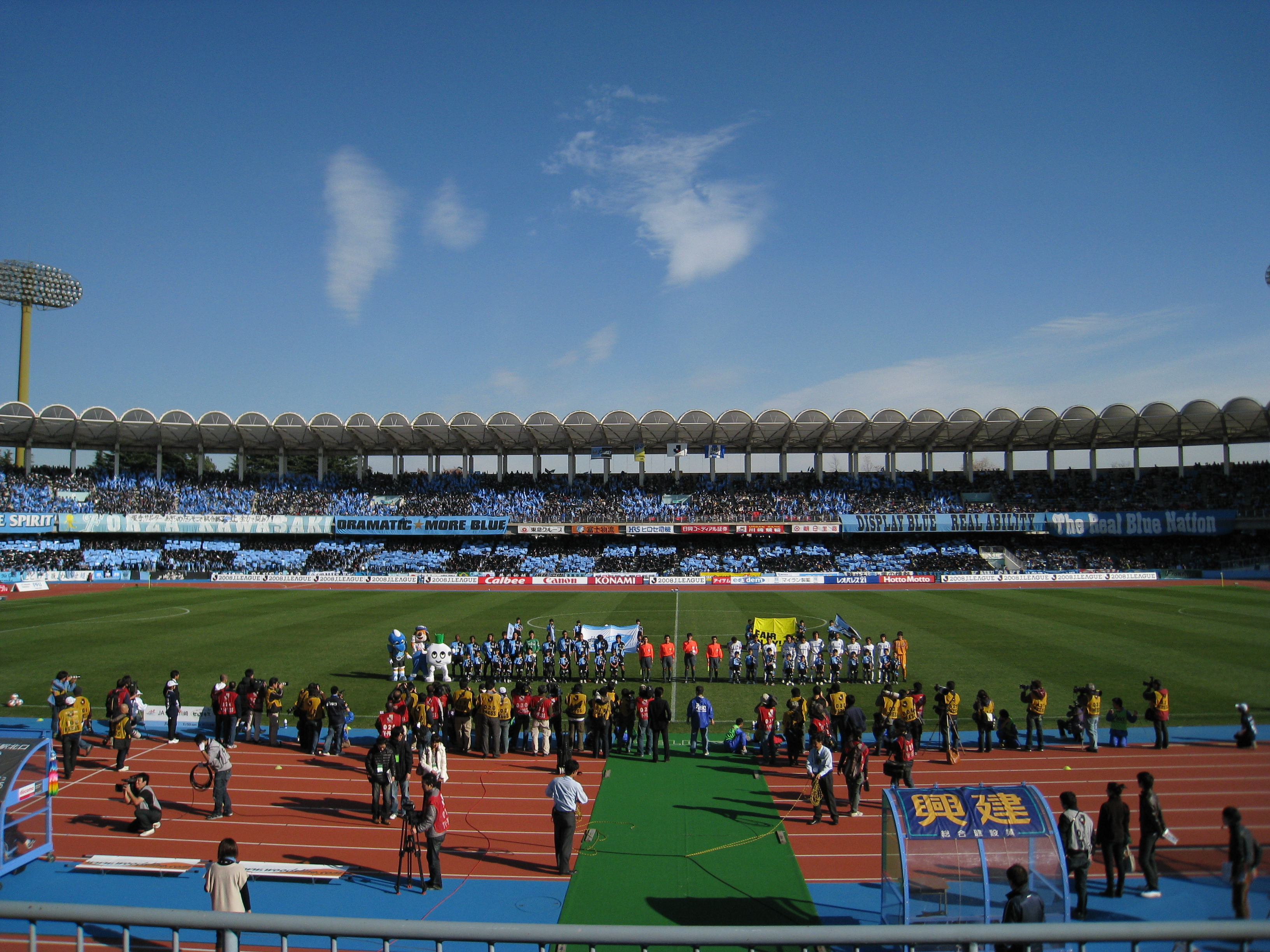 Kawasaki Frontale vs Gamba Osaka at Todoroki Stadium at 2008